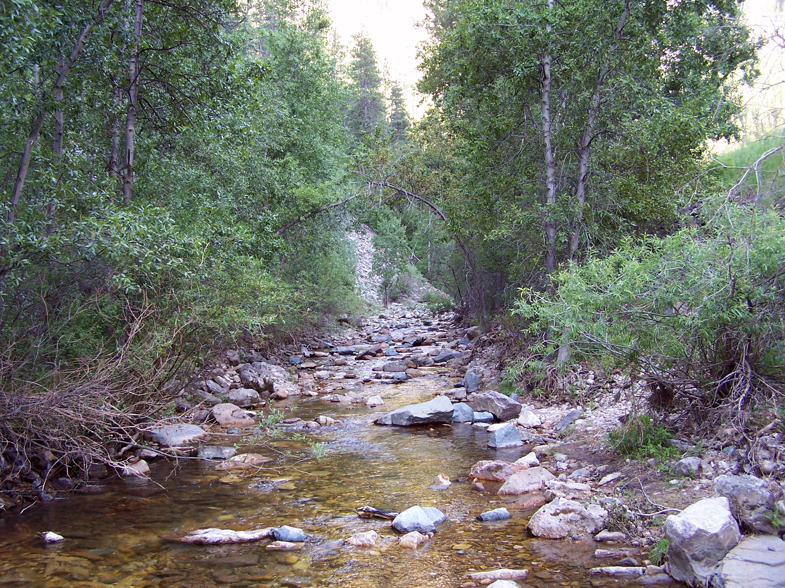 Spearfish Creek in Spearfish Canyon.